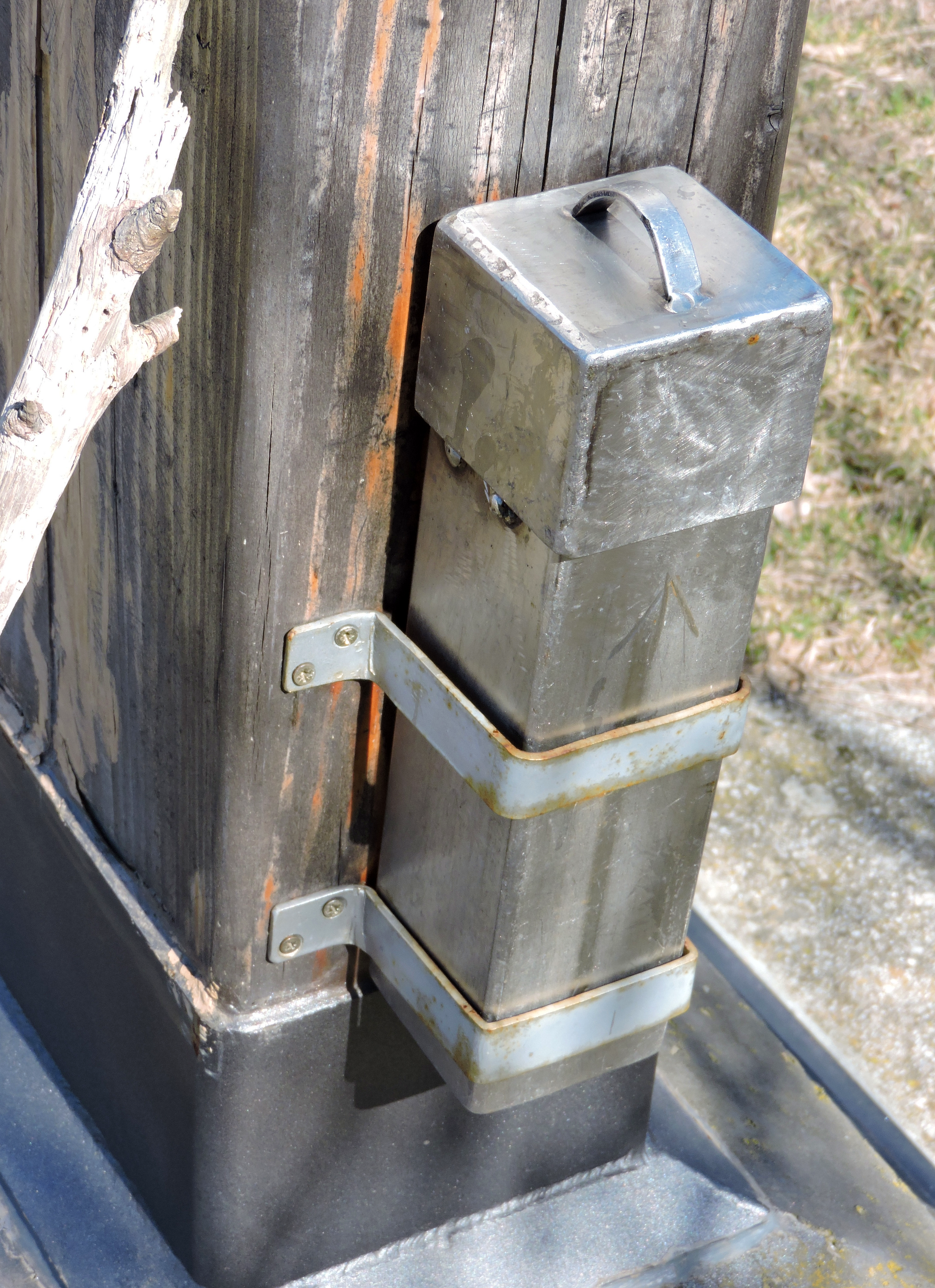 Bric della Croce (SV, Ligurian Prealps): summit register box